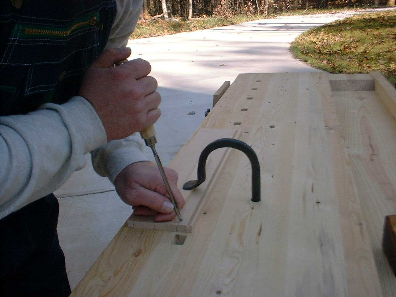 A holdfast in use